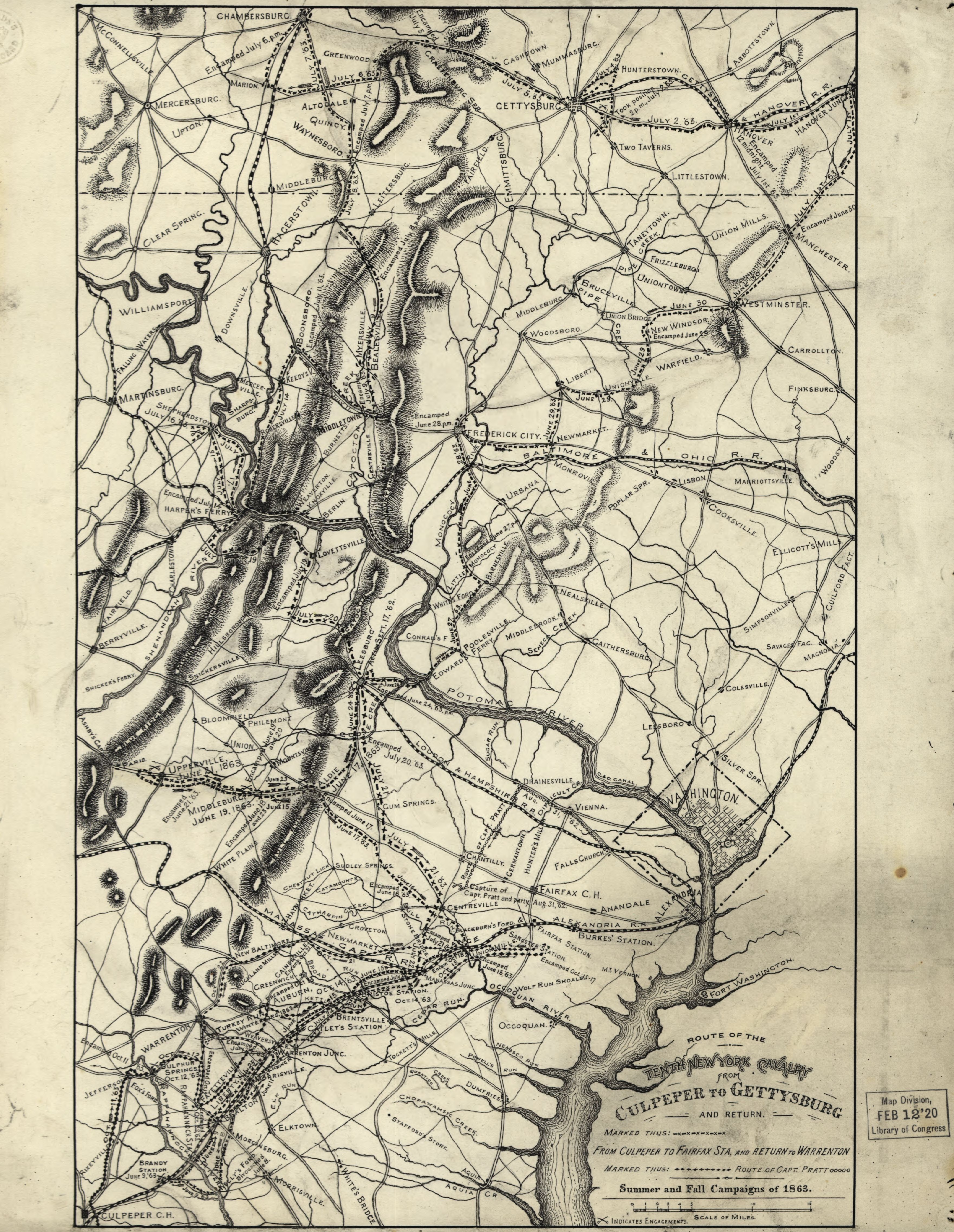 Scale ca. 1:440,000. LC Civil War Maps (2nd ed.), 46 Finished pen and ink manuscript map of parts of Virginia, Maryland, and Pennsylvania, showing location and date of encampments and battles, route of the Tenth New York Cavalry, route of Capt. Pratt, roads, railroads, towns, drainage, and relief by hachures. Printed version appears in Preston's History of the Tenth Regiment of Cavalry, New York State Volunteers, August, 1861, to August 1865. New York, D. Appleton, 1892. opp. p. 100. Description derived from published bibliography. Available also through the Library of Congress web site as raster image.